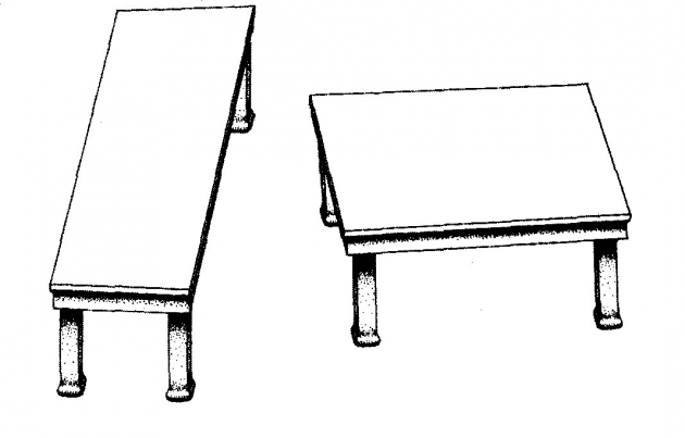 Table shepard.preview